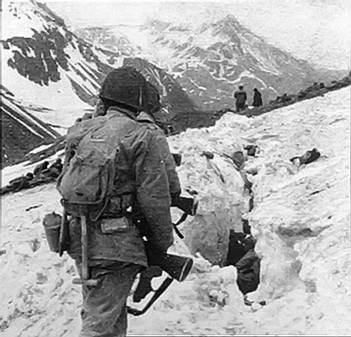 US troops navigate snow and ice during the battle on Attu in May, 1943. Public domain as Crown copyright lasts 50 years in Australia.